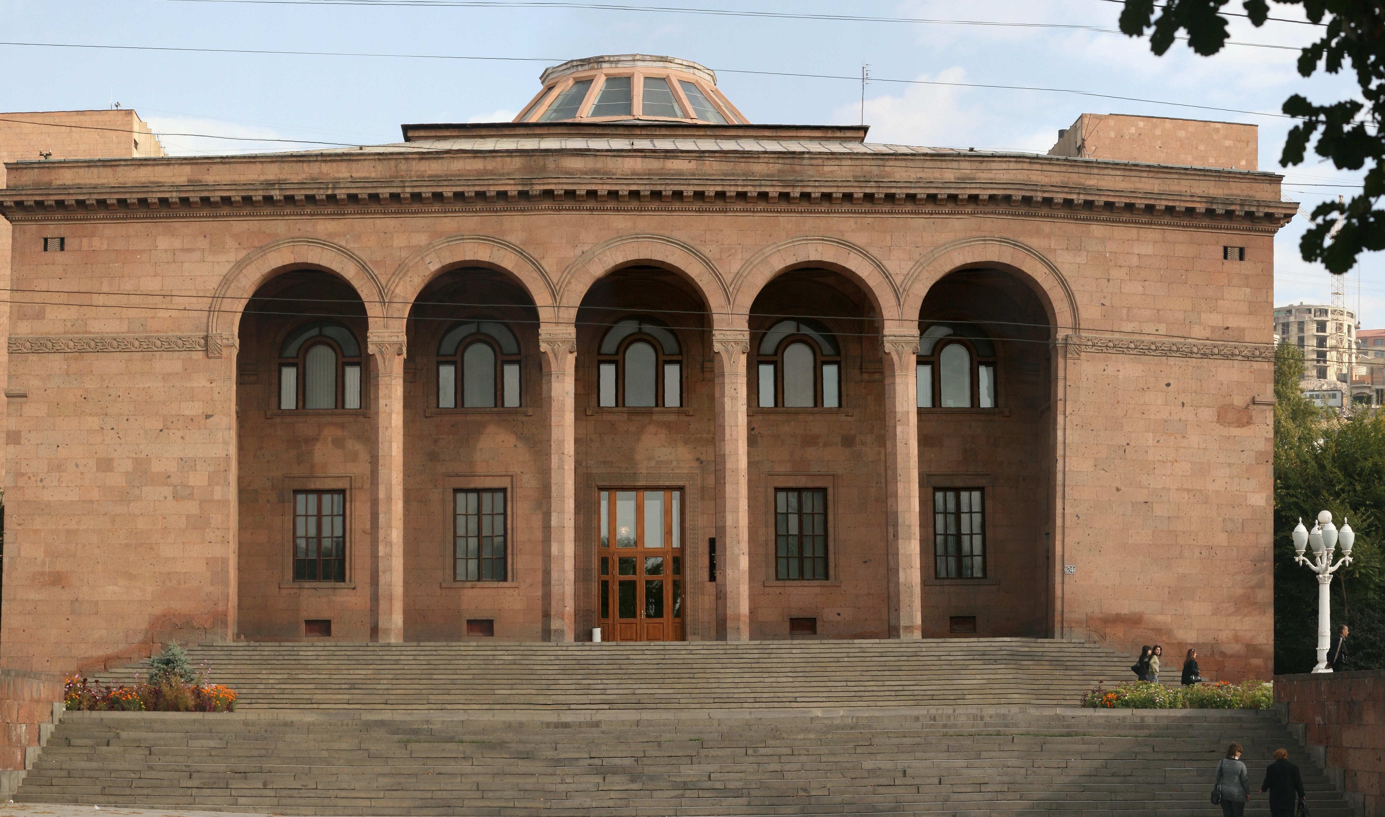 Armenian Academy of Sciences, Yerevan, Armenia.